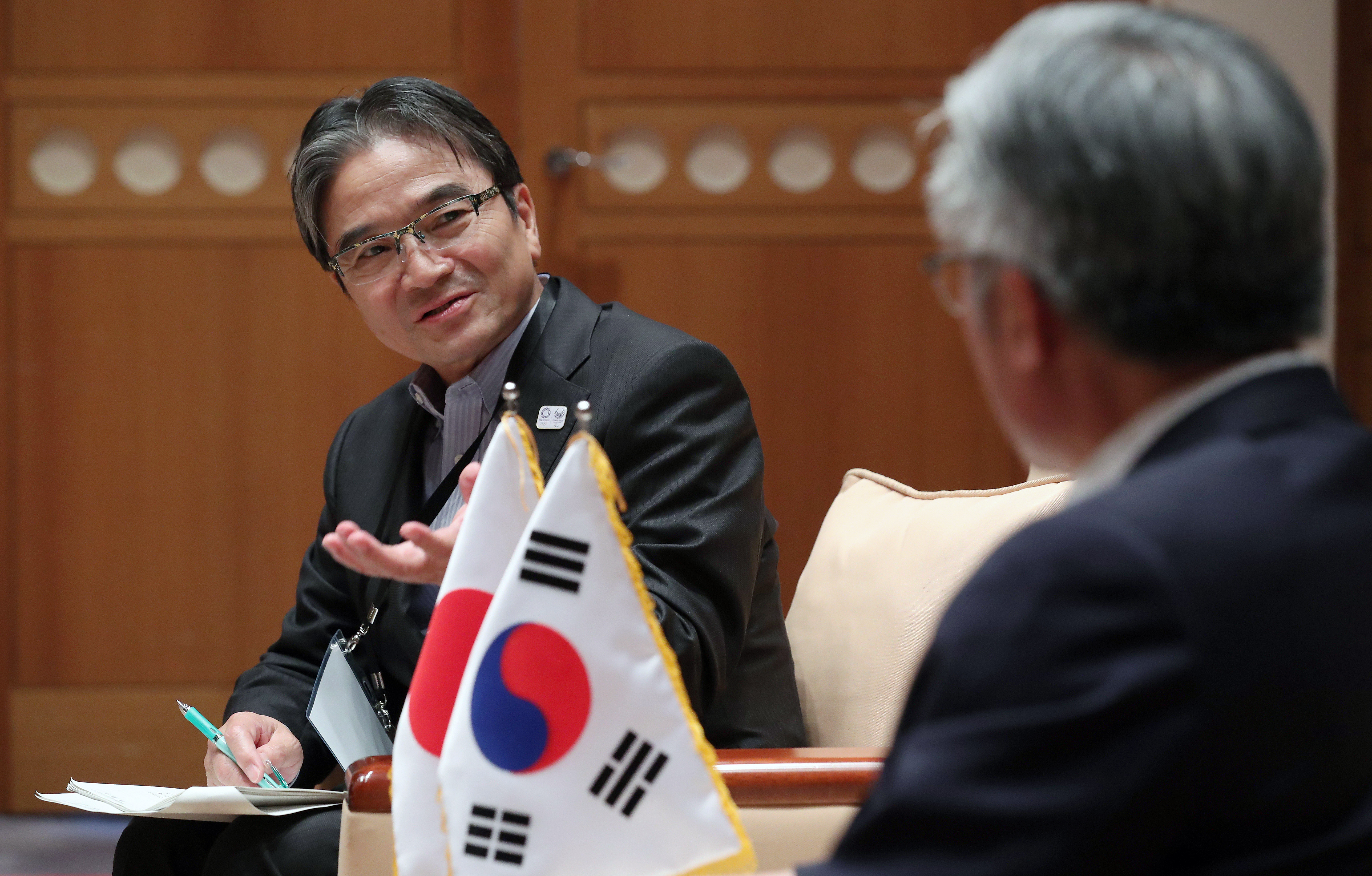 [1] The 8th Korea-China-Japan Culture Minister’s Meeting August 27, 2016 Jeju Shilla Hotel, Jeju-do Ministry of Culture, Sports and Tourism Official Photographer: Heo Manjin This official Republic of Korea photograph is being made available only for publication by news organizations and/or for personal printing by the subject(s) of the photograph. The photograph may not be manipulated in any way. Also, it may not be used in any type of commercial, advertisement, product or promotion that in any way suggests approval or endorsement from the government of the Republic of Korea. 제8회 한중일 문화장관회의 2016-08-27 제주신라호텔, 제주도 문화체육관광부 허만진